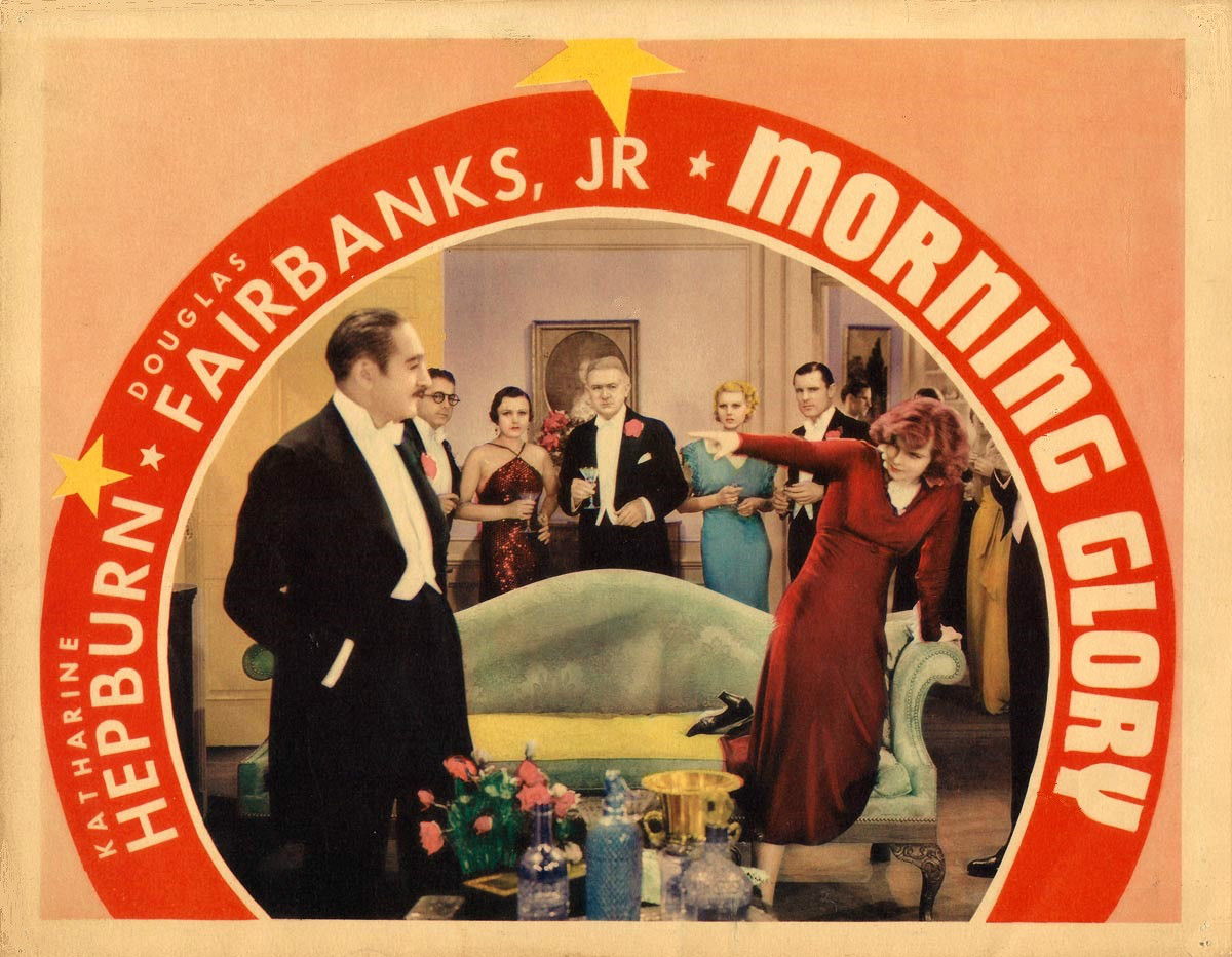 Lobby card from the 1933 film Morning Glory with Adolphe Menjou and Katharine Hepburn.